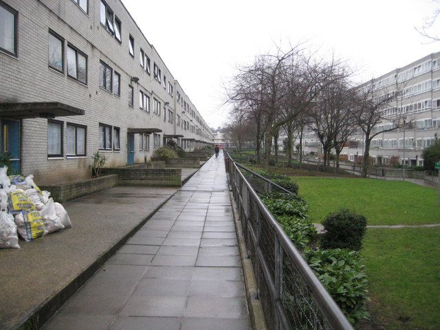 Gospel Oak: Lismore Circus Estate: Ludham (1) Ludham, on the left, and Waxham on the right, are two parallel blocks of continuous housing units dating from the early 1970s. They are both about 240 metres long. There are copious photographs of this estate when it was brand new on the English Heritage Viewfinder website here